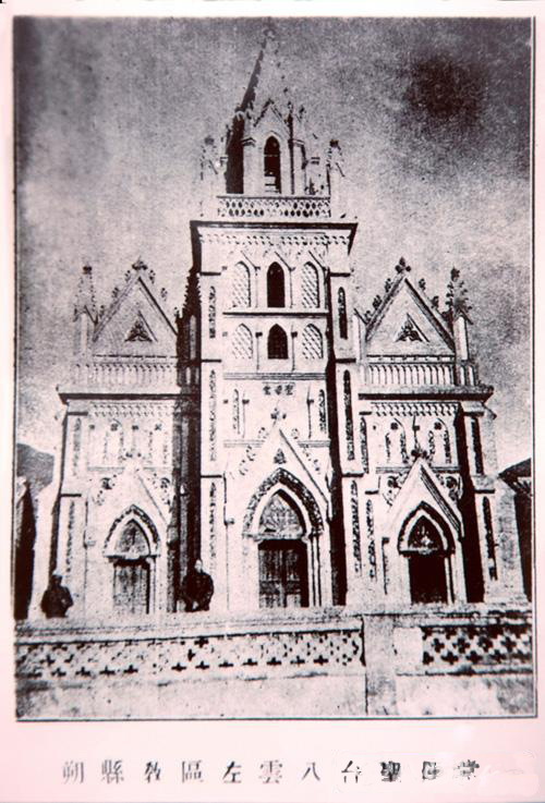 Zuoyun Batai Lady Chapel, a Catholic church rebuilt in circa 1901, undermined during the Cultural Revolution. The church is located at Batai village, Zuoyun county, Shanxi province, PR China.